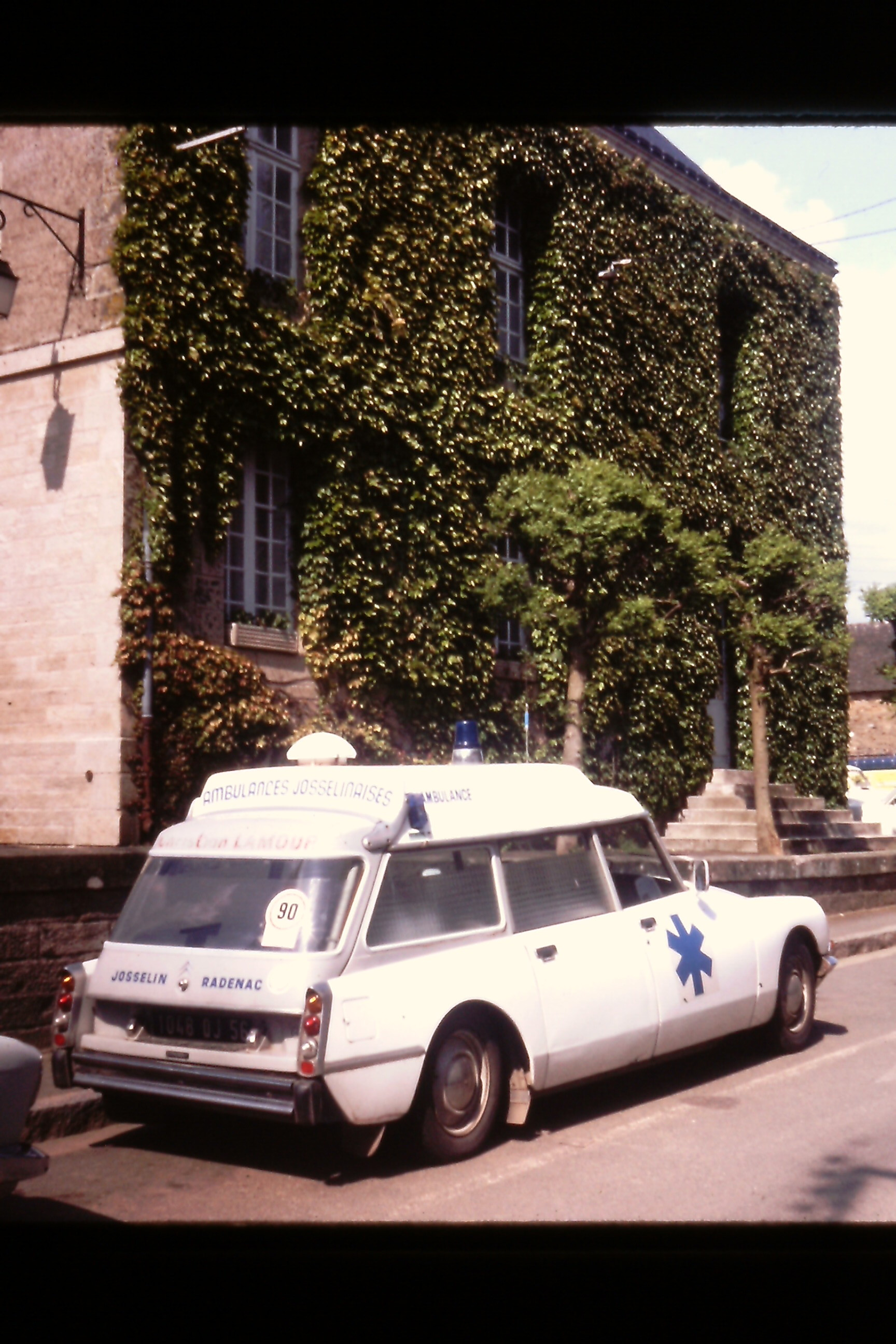 Photo in Dinan, Brittany in June 1981.